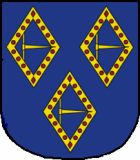 Blazon of Hohentannen, Canton of Thurgau, SwitzerlandEsperanto: Blazono de Hohentannen, Kantono Turgovio, Svislando